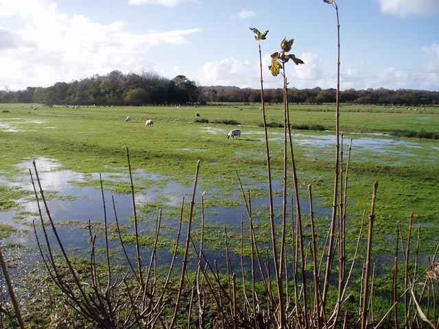 Hale Moss. Sheep finding what grazing they can on flooded ground by the A6.